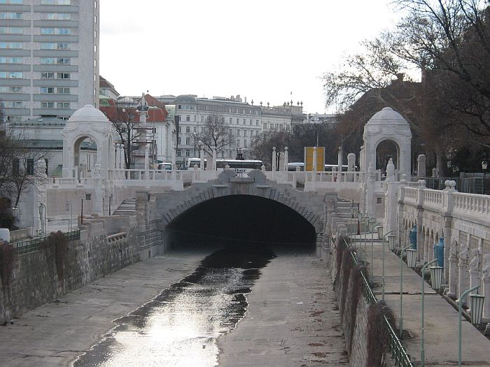 from the German Wikipedia